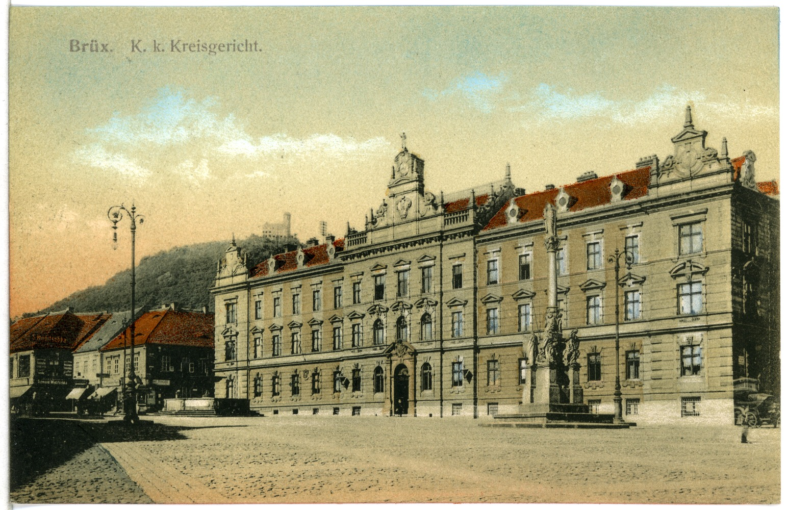 This postcard is from publisher Brück & Sohn in Meißen ( This postcard has a unique number 14007 and is available in a higher resolution at the publisher. This images was uploaded in a cooperation project between Wikipedians and the publisher.